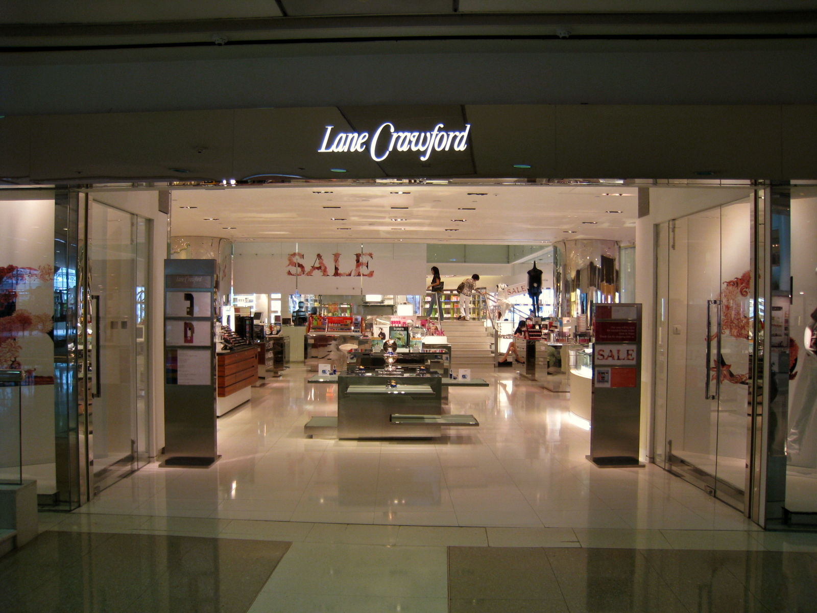 Lane Crawford Pacific Place 位於zh:太古廣場連卡佛分店